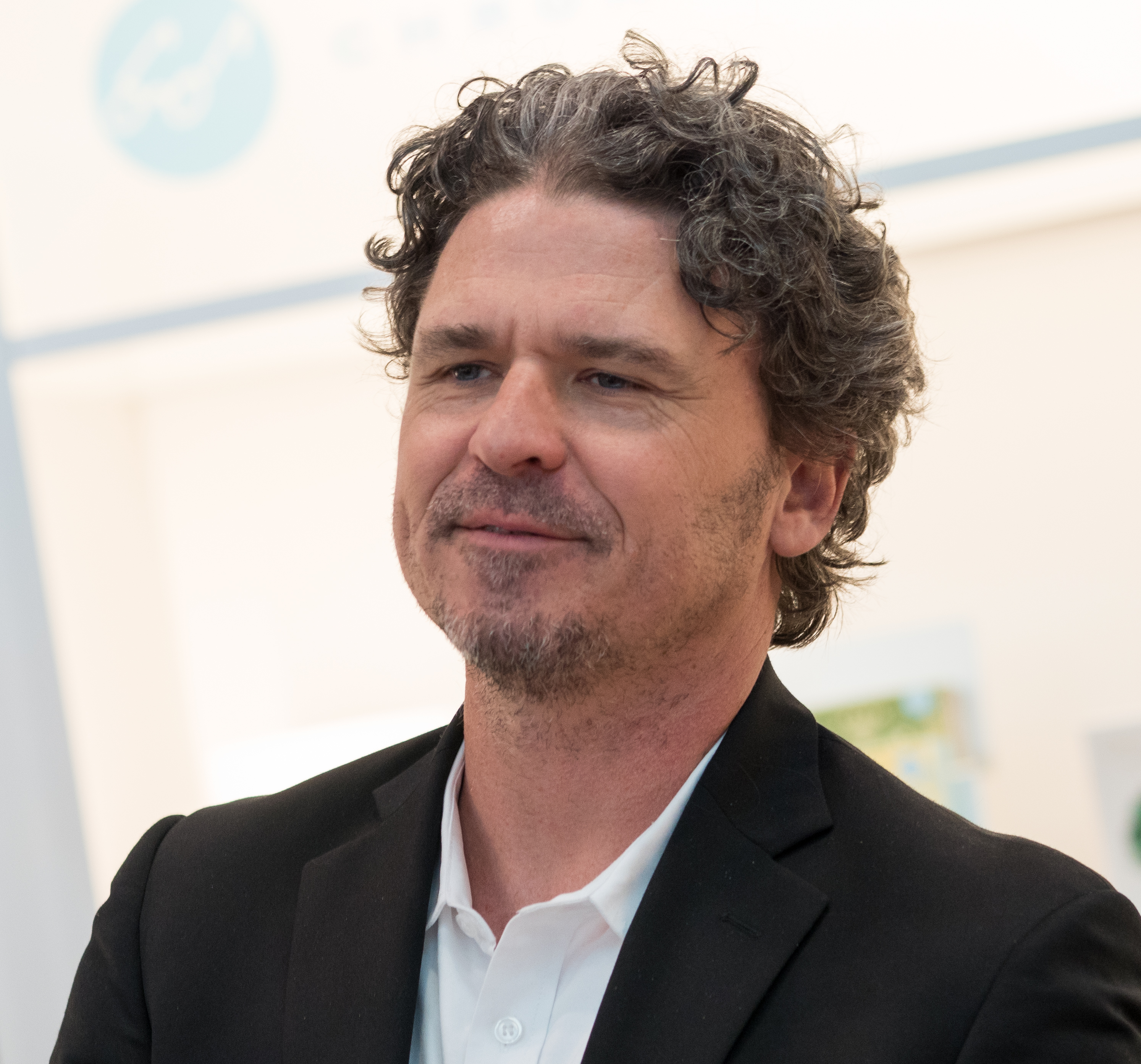 Dave Eggers BookExpo America 2018 at the Javits Convention Center in New York City.